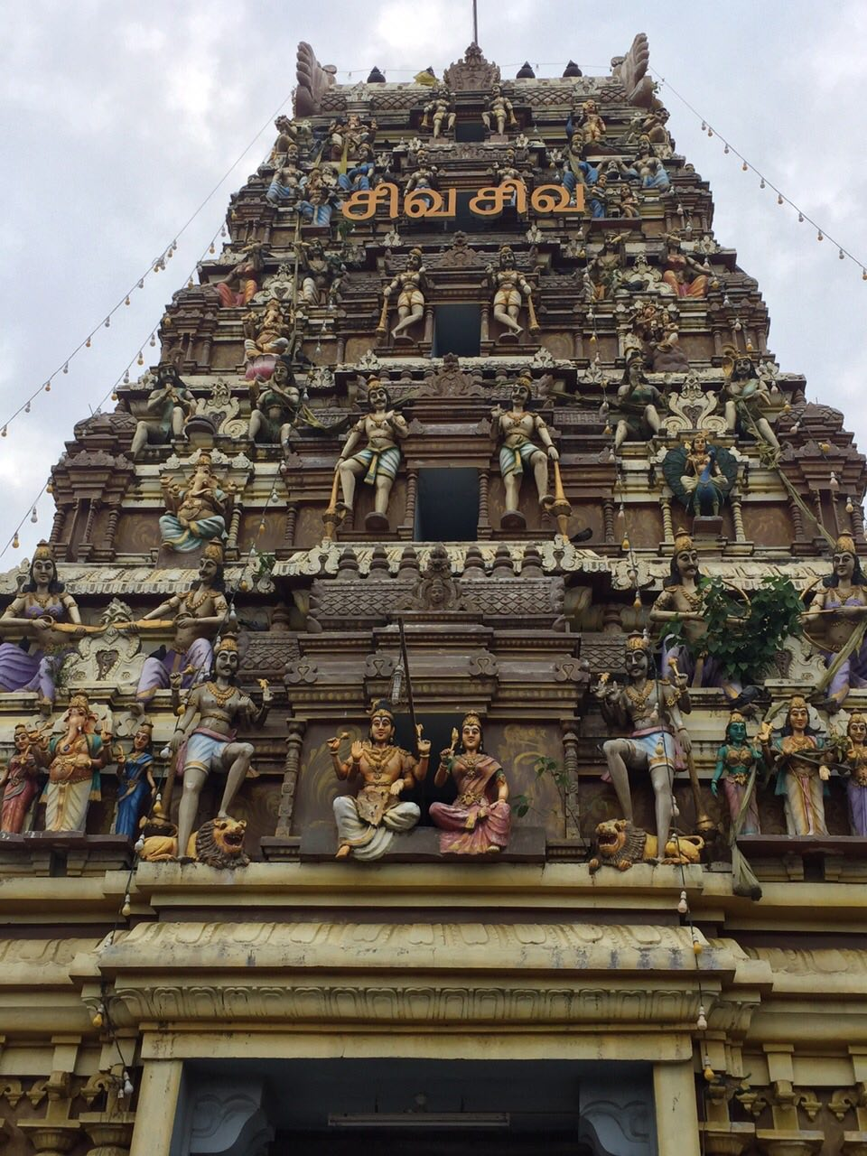 it is the front view of the temple on 10.12.2016